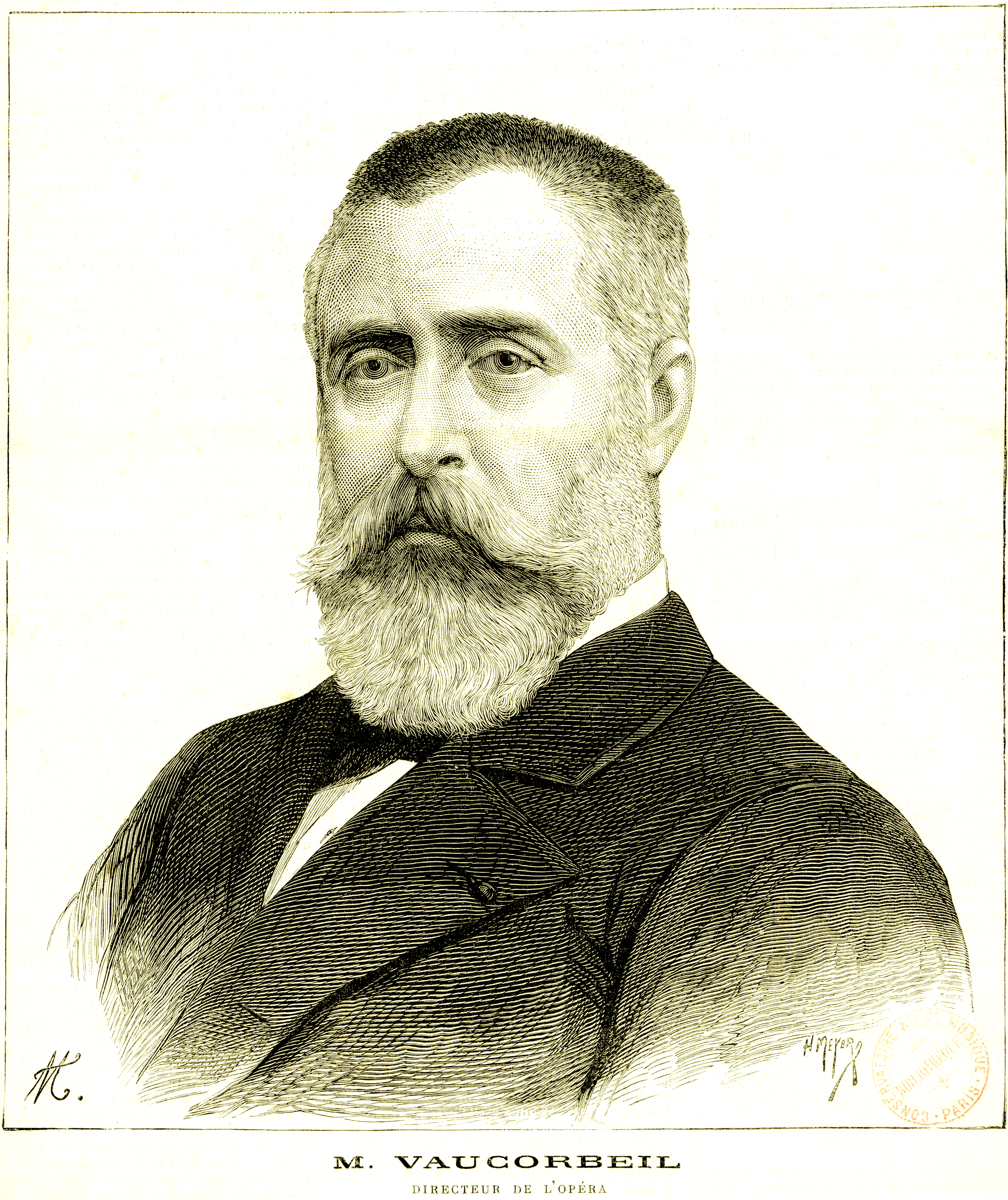 Photographic portrait of Auguste Vaucorbeil (1821–1884), French composer, Director of the Paris Opera from 1879 to 1884, by Henri Meyer.